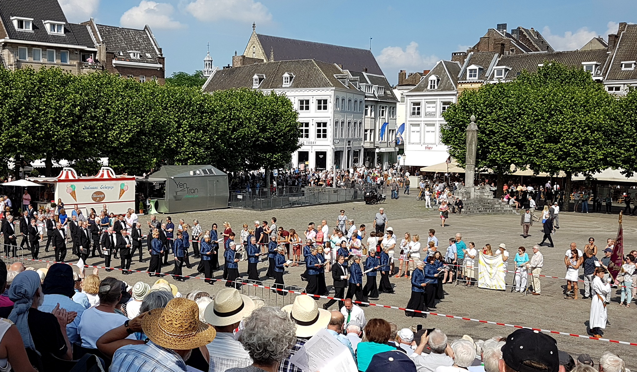 View of a historic religious procession during the 2018 Heiligdomsvaart ("Relics Pilgrimage") in Maastricht, Netherlands. The history of this seven-yearly catholic pilgrimage goes back to the Middle Ages. The first 'modern' version took place in 1874. On both Sundays of the 10-day festival, a procession is held in which the main relics of the town and other devotional objects are exhibited. This photo was taken from the spectator stand in Vrijthof square during the (second) procession on 3 June 2018. The choir is the Cappella Sancti Servatii. It is part of the delegation from the Basilica of Saint Servatius in the procession.